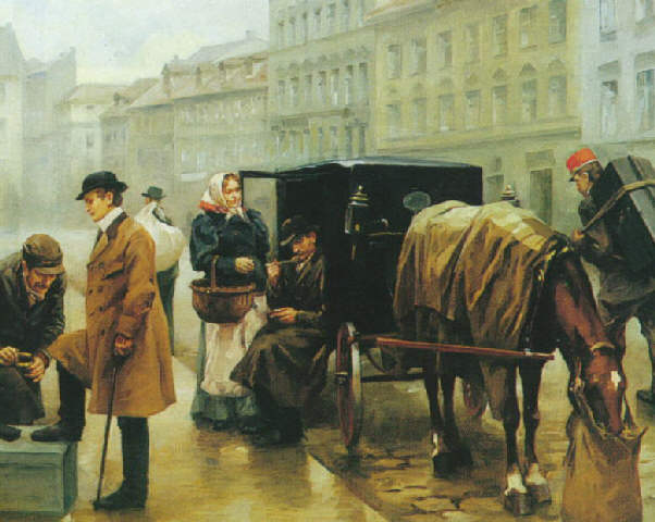 A Street Scene in Prague, oil on canvas